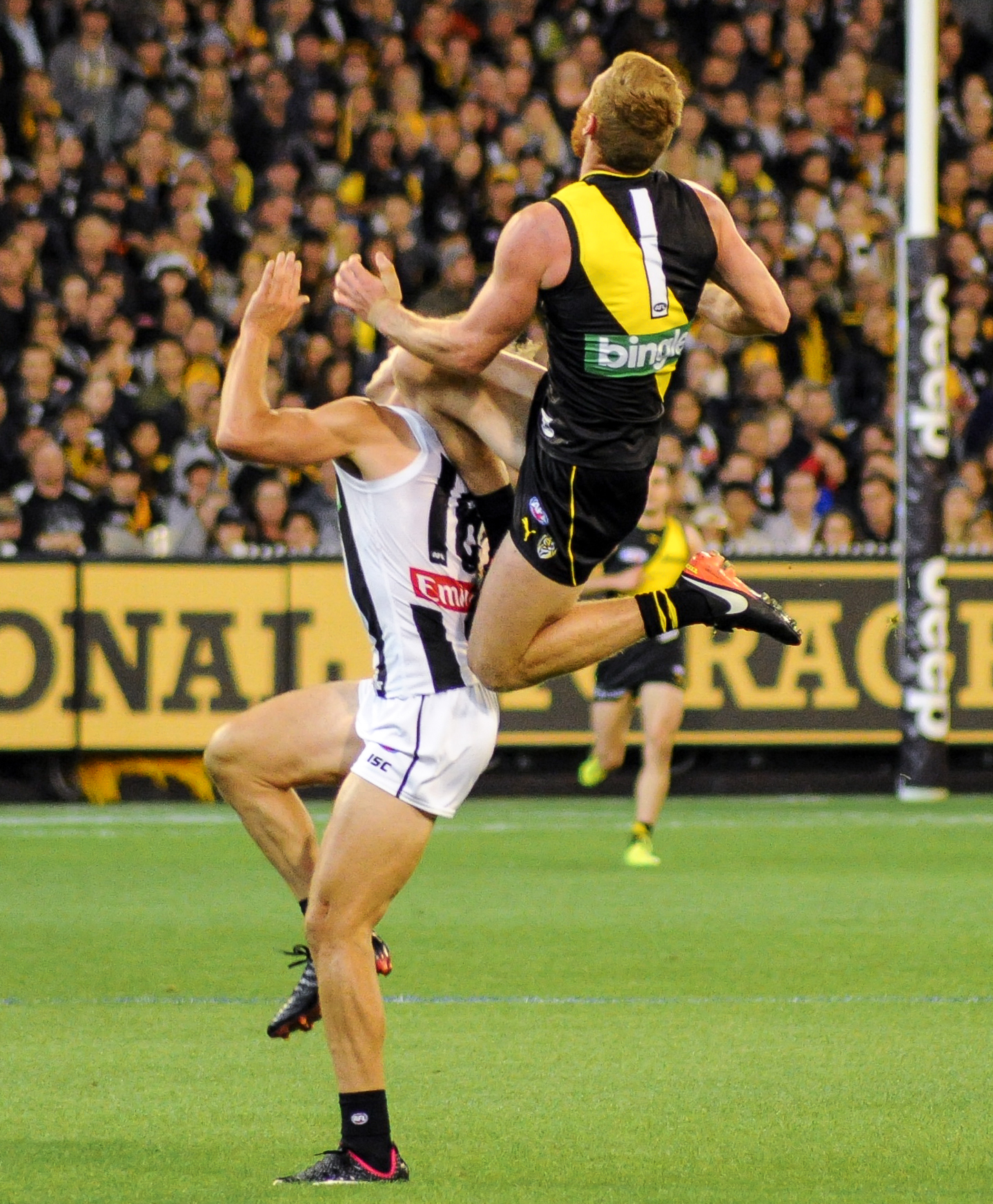 Nick Vlastuin marking over Chris Mayne during the AFL round two match between Richmond and Collingwood on 30 March 2017 at the Melbourne Cricket Ground in Melbourne, Victoria.